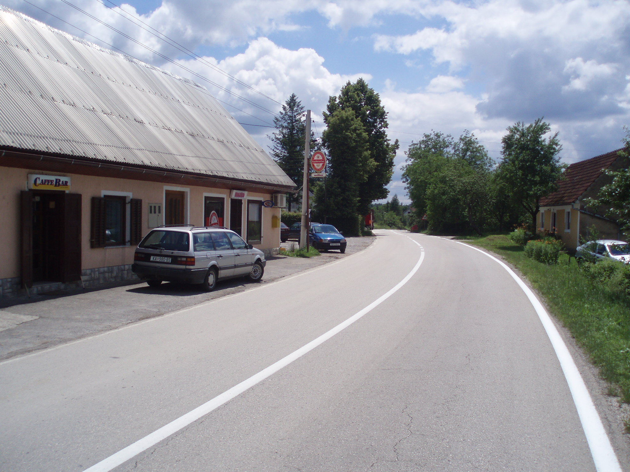 Village of Donje Dubrave - Center of place. The place is situated 25 km from the city of Ogulin (Karlovac county) on the road Duga Resa - Senj.